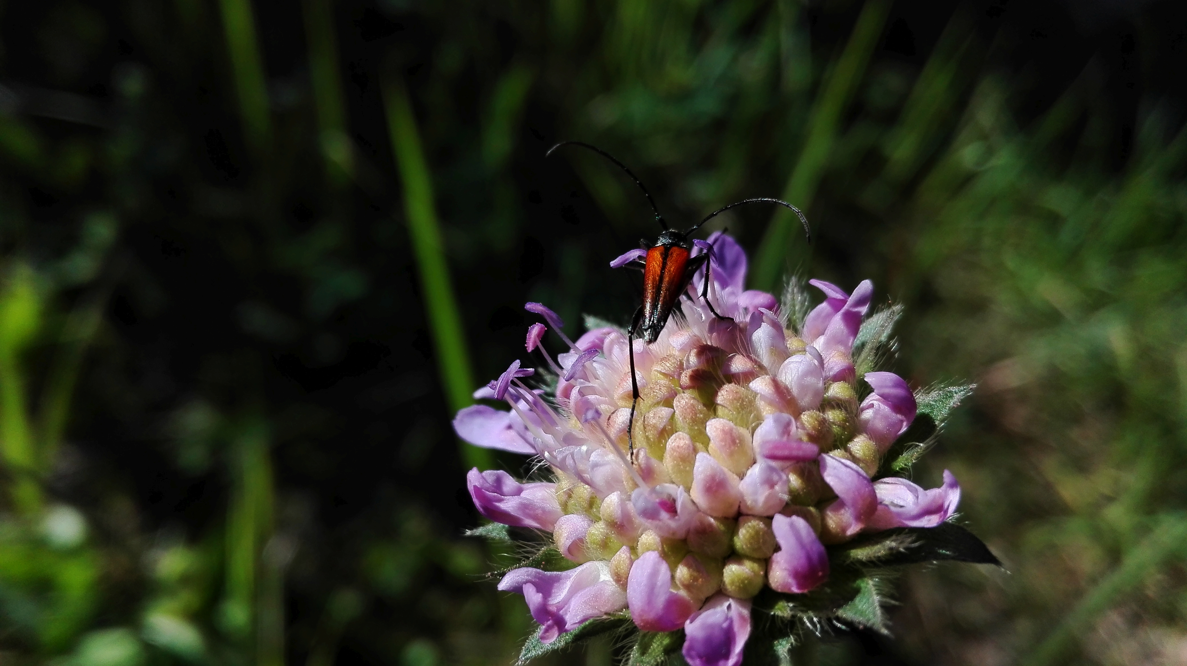 Stenurella melanura male in Estonia.